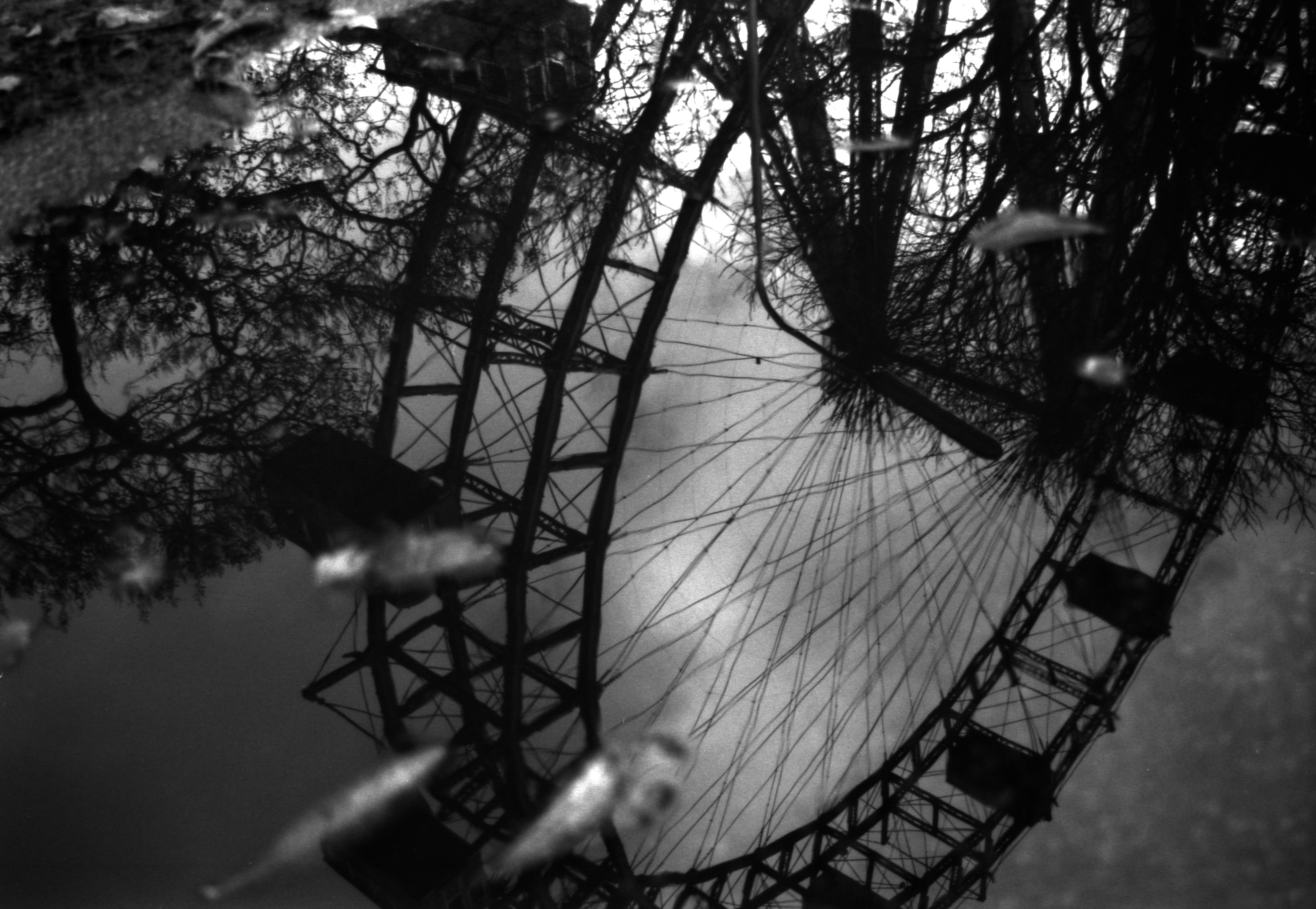 Austria, Vienna, Prater, Wiener Riesenrad